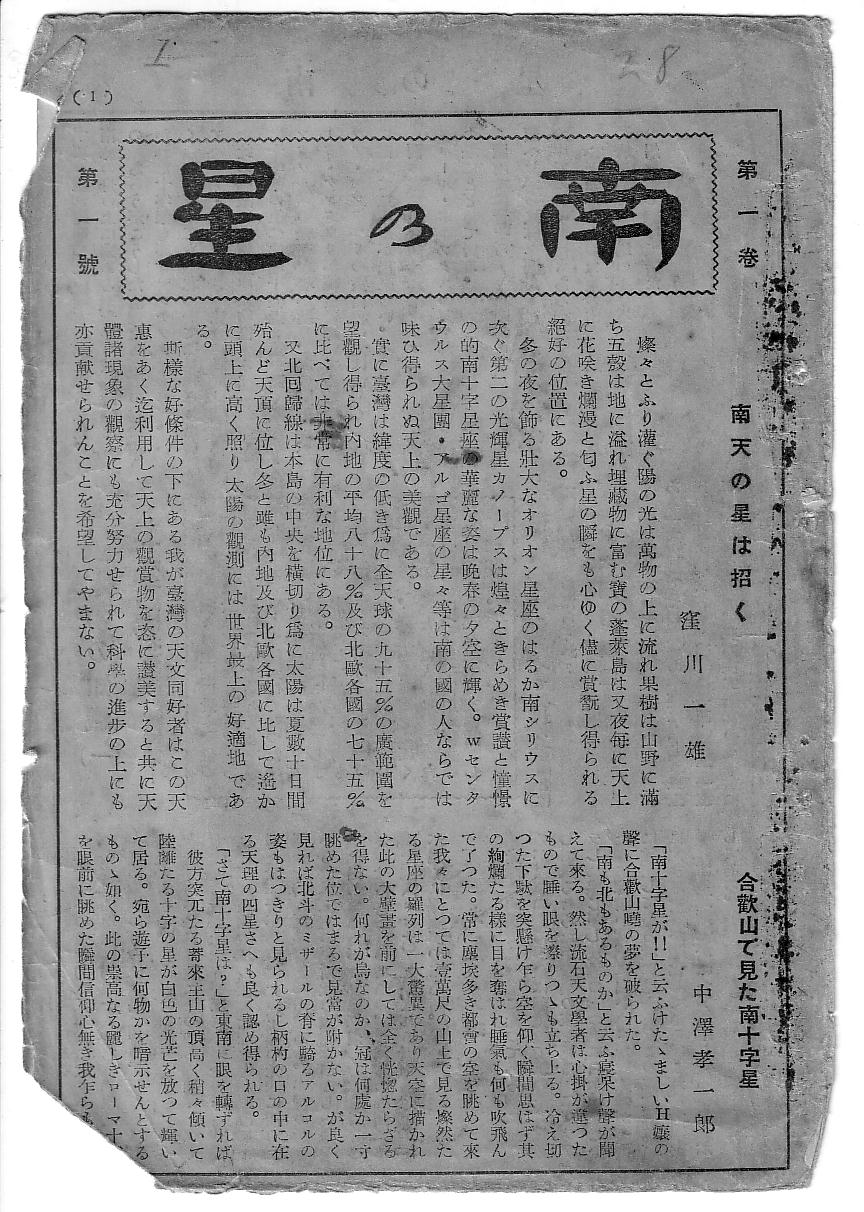 The front page of issue 1, volume 1 of "The Southern Star".